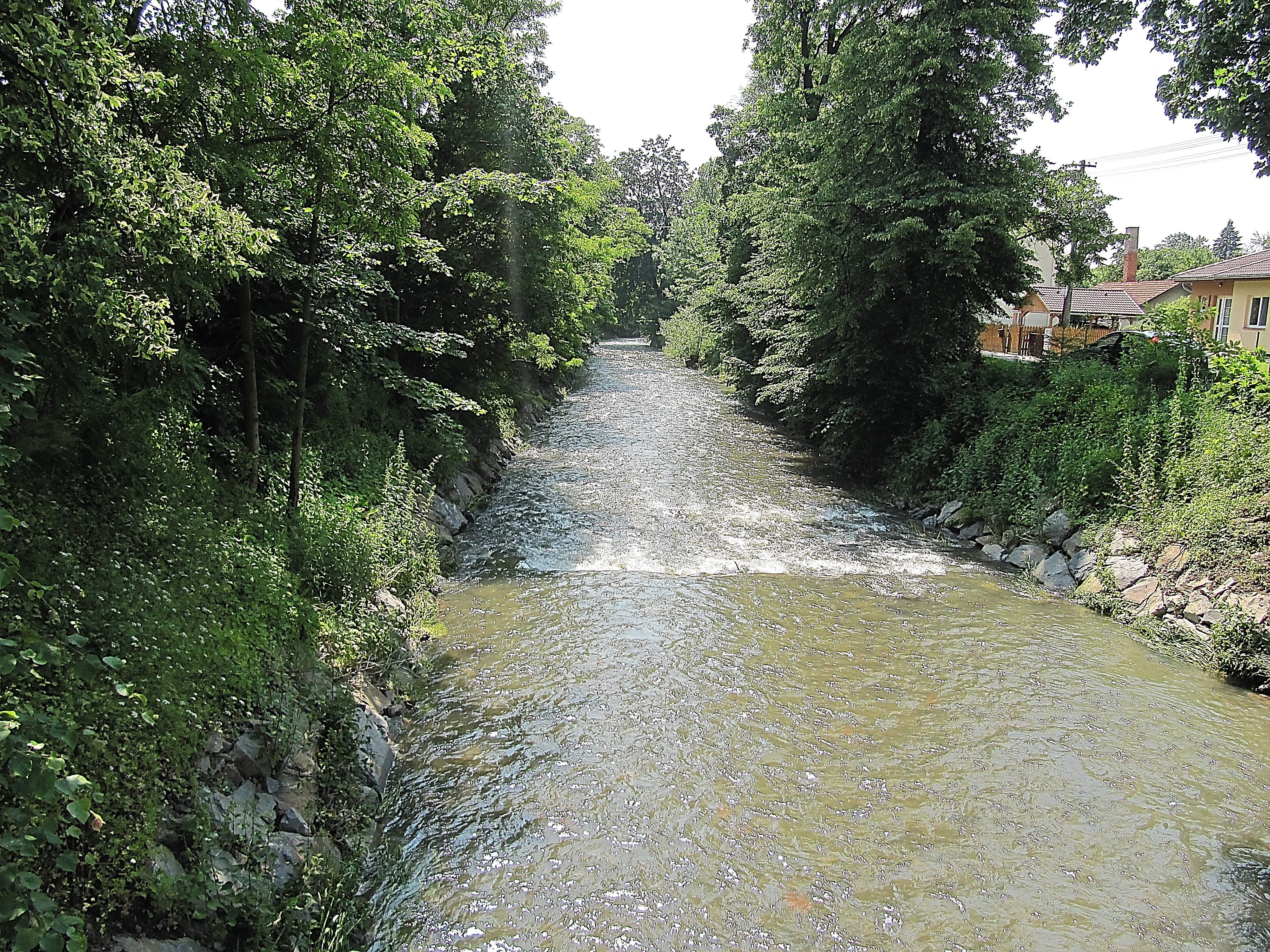 Husí potok river in Stachovice near Fulnek (Czech Republic)